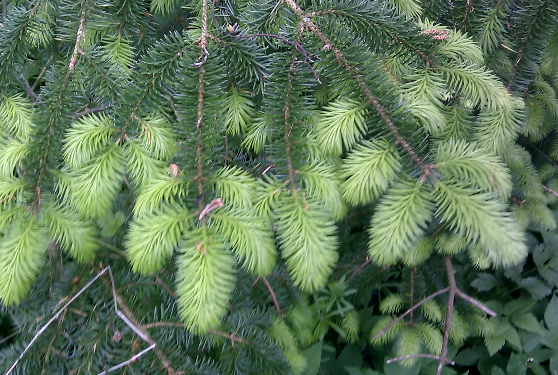 Norway Spruce with new growth, Stewarton, East Ayrshire, Scotland